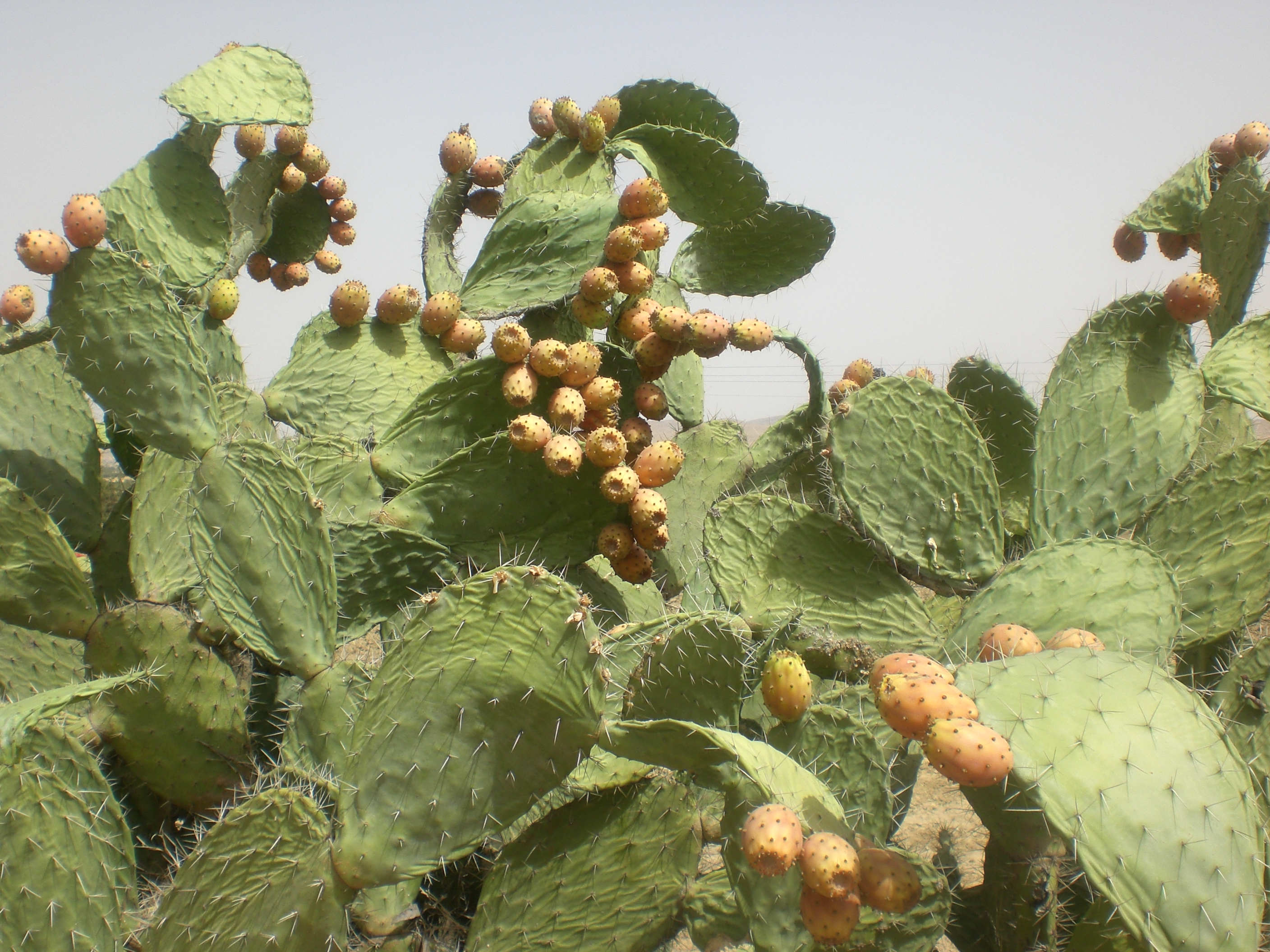 Figue de Barbarie-Tunisie